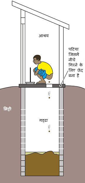 Schematic of a simple pit latrine